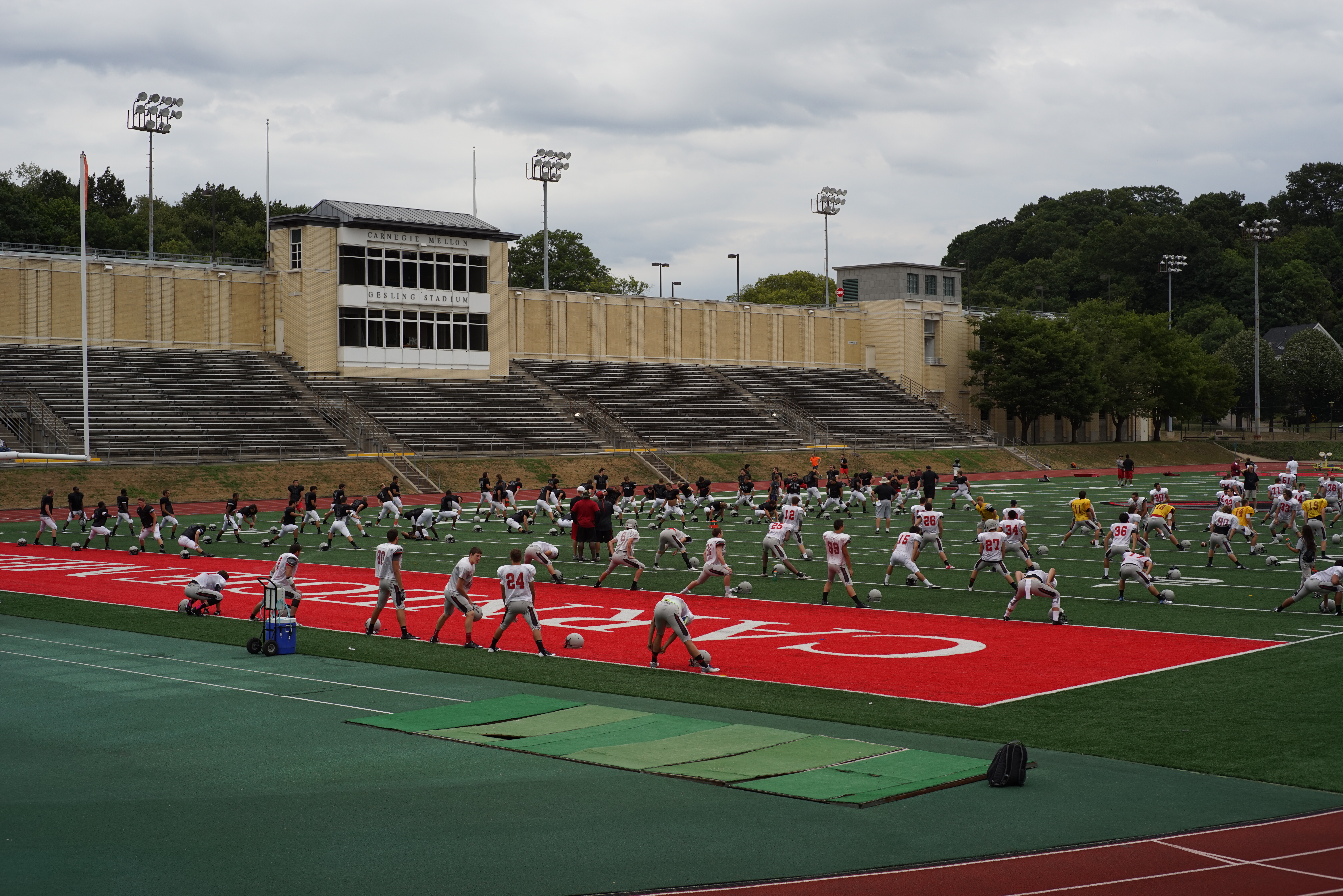 Some people warming up for what appears to be American football at Carnegie Mellon University.